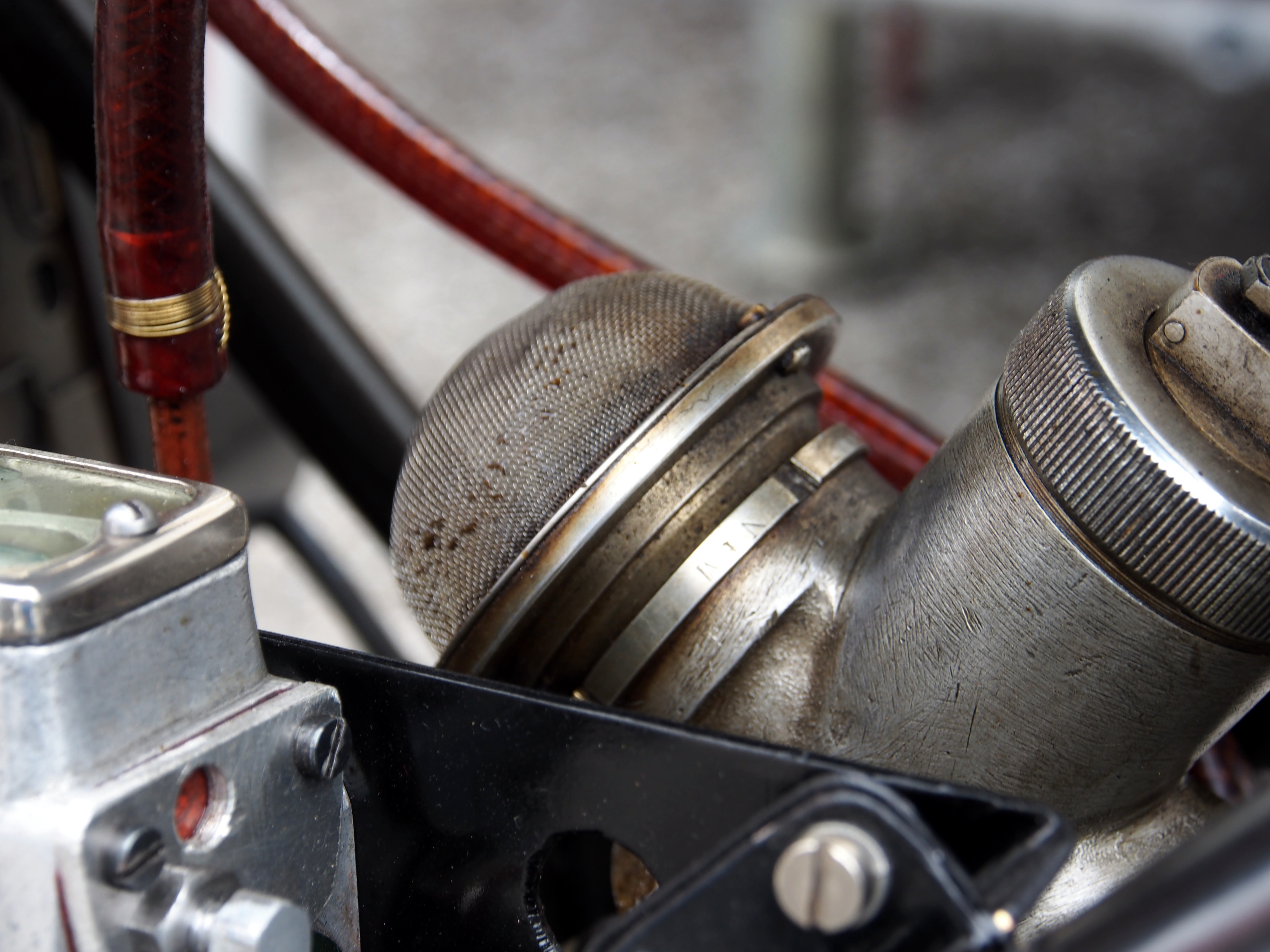 Photographed at Rockanje, The Netherlands.